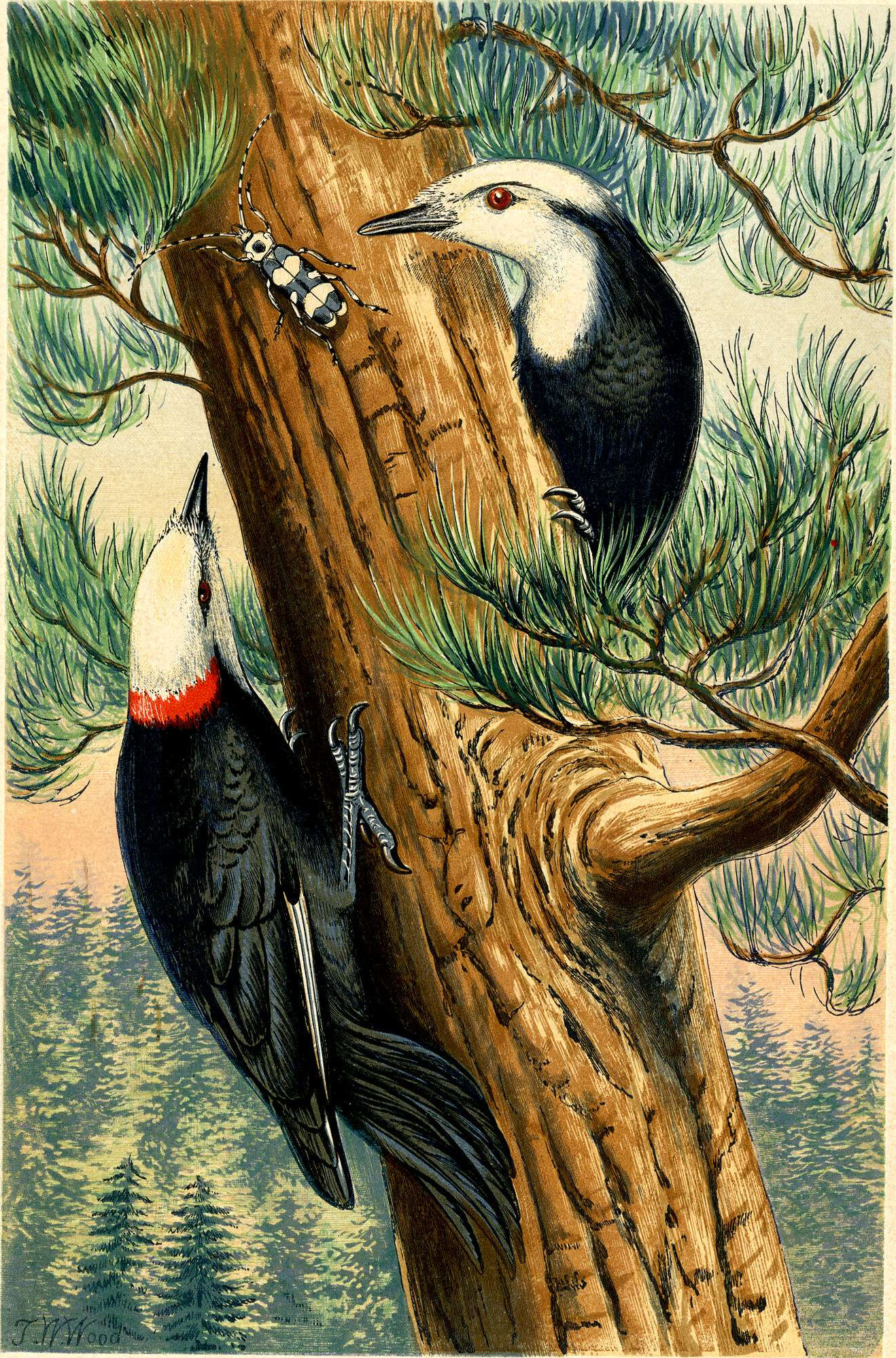 Colour print from wood-engraving by Benjamin Fawcett (1808-1893) of drawing by Thomas W. Wood (b 1839).